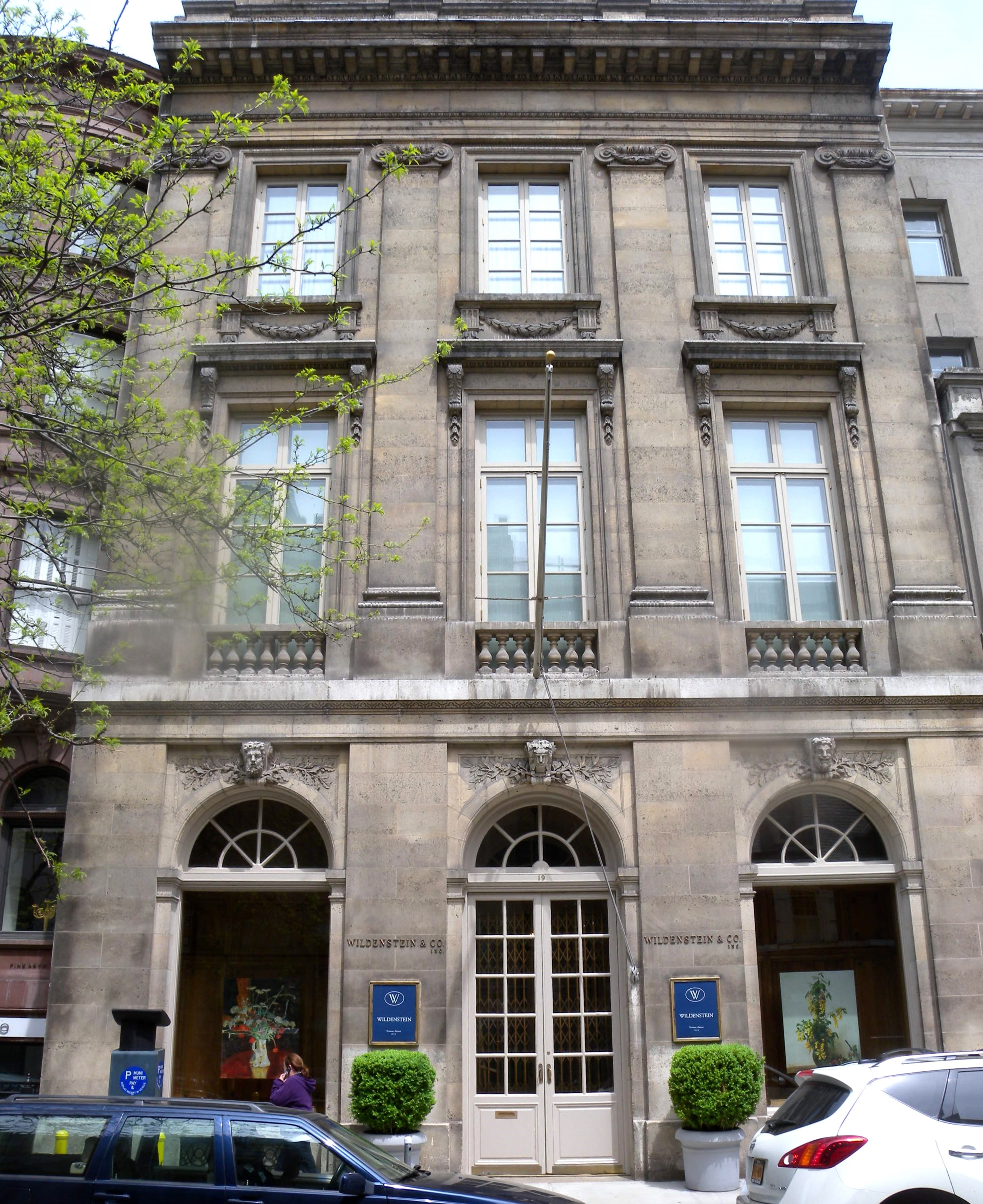 Looking north across 64th St at Wildenstein & Company Building on a mostly sunny day.